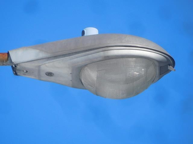 History of street lighting : General Electric M250R (1960–1970)